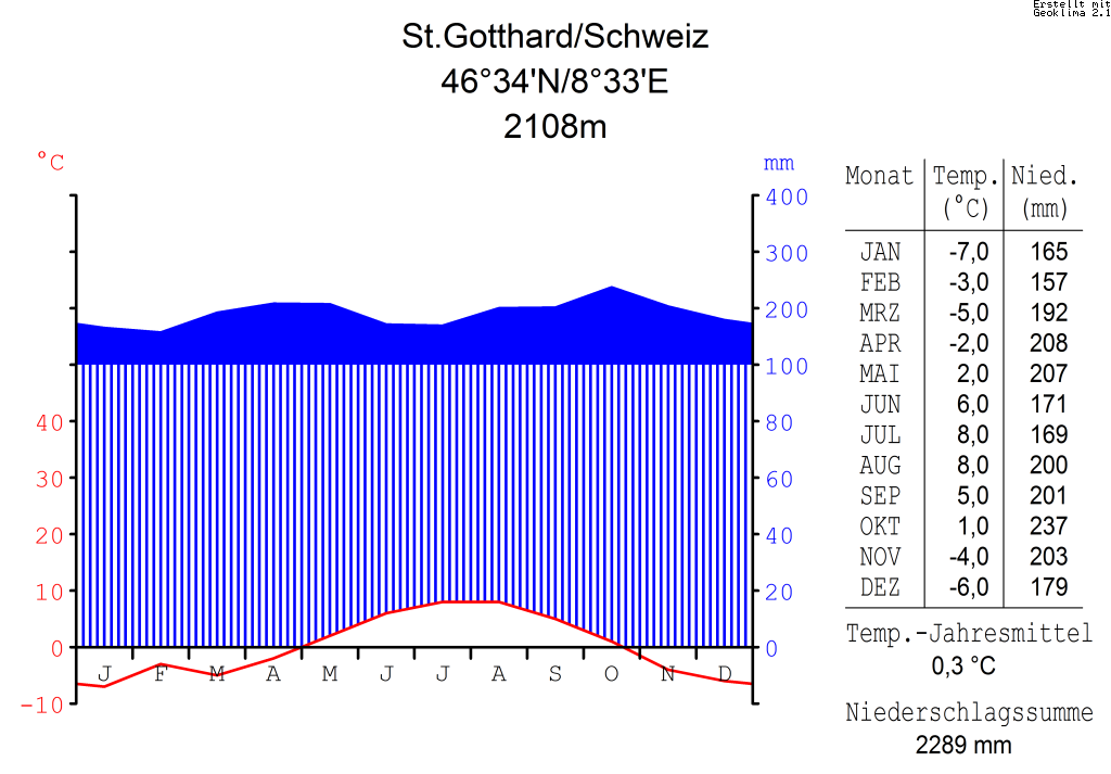 climate chart in the format by Walther and Lieth, metric, °Celsisus and millimeters, made with Geoklima 2.1 DateOctober 2006SourceSoftware: Geoklima 2.1 Website GeoklimaAuthorHedwig in WashingtonPermission (Reusing this file) Own work, attribution required (Multi-license with GFDL and Creative Commons CC-BY 2.5)